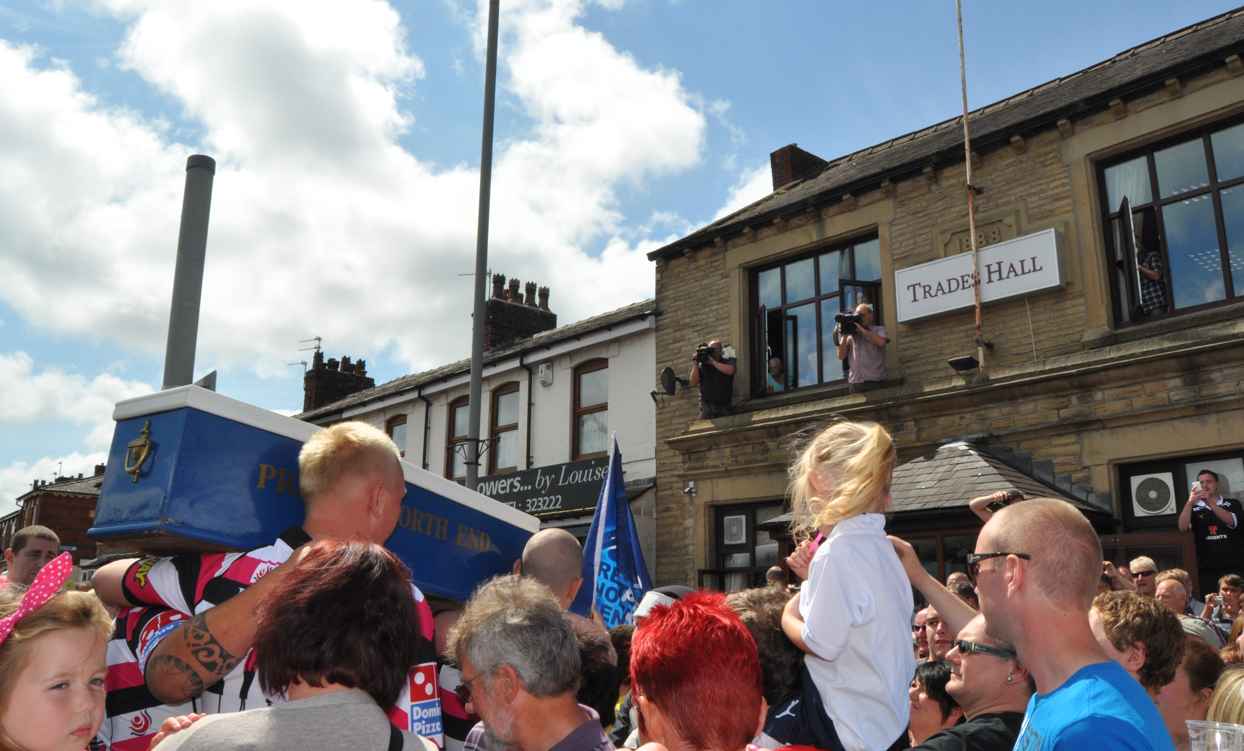 A coffin representing Preston North End F.C.'s relegation season of 2010/2011 is carried towards the Trades Hall in Bamber Bridge, near Preston, Lancashire on 24th July 2011. Hundreds of fans and locals attended the procession and the event was covered by local media. The coffin procession is held when Preston North End are relegated or promoted. The tradition began in 1948 after a greengrocer in Bamber Bridge packed a coffin full of vegetables and buried it following Preston’s relegation to Division Two. Preston North End are a professional football club. They were founder members of the English Football League in 1888 and were the first ever English football champions. They were also the first team to win 'The Double' of the league and FA Cup in 1889.